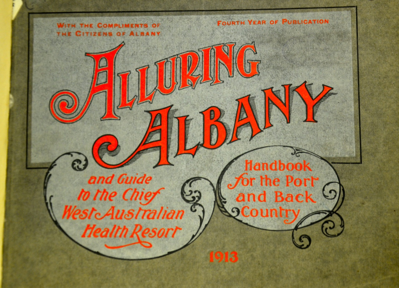 Alluring Albany front cover of the 1913 fourth edition